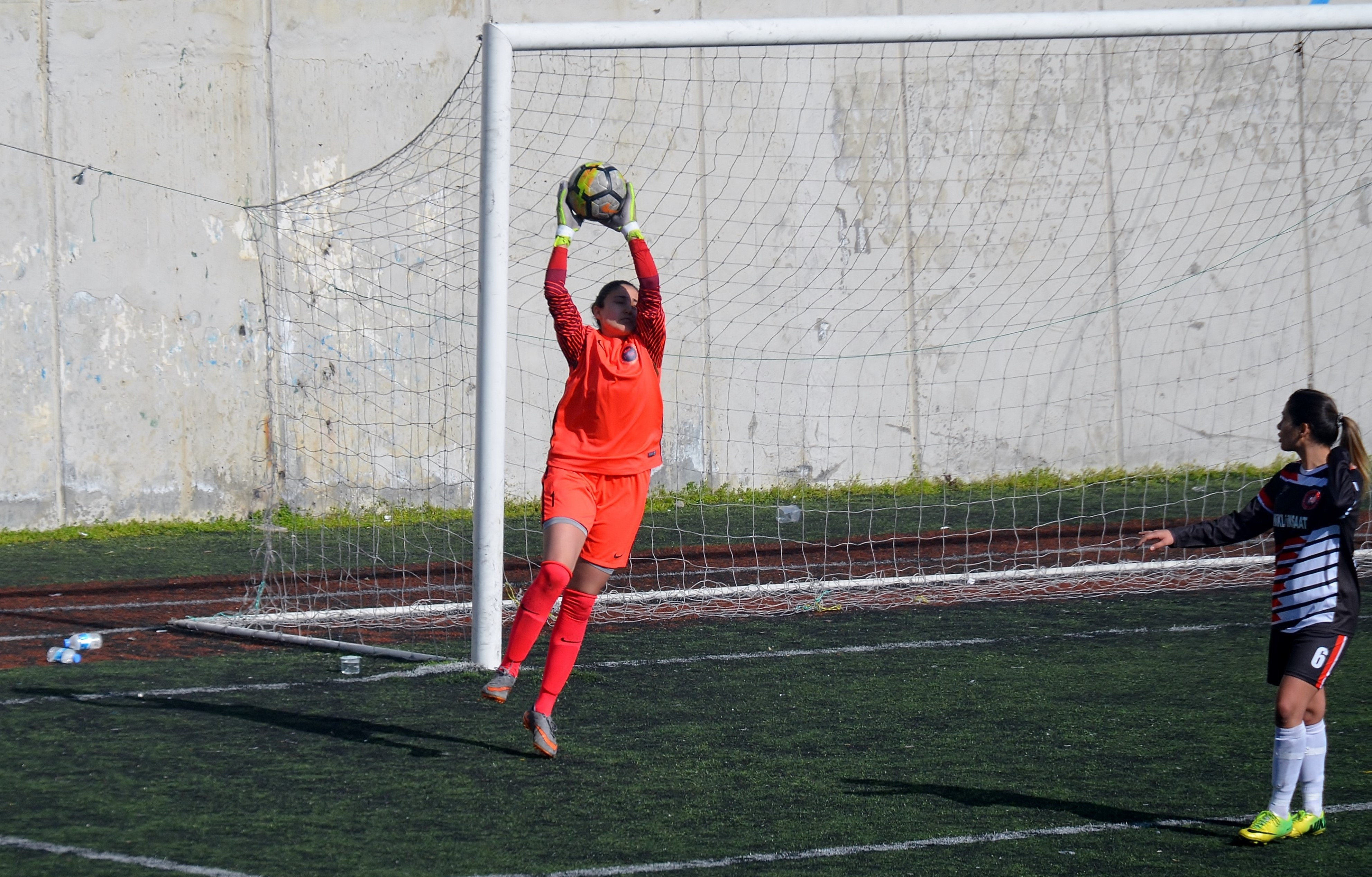 Özlem Gezer playing for Fatih Vatan Spor in the 2017-18 Turkish Women's First League.